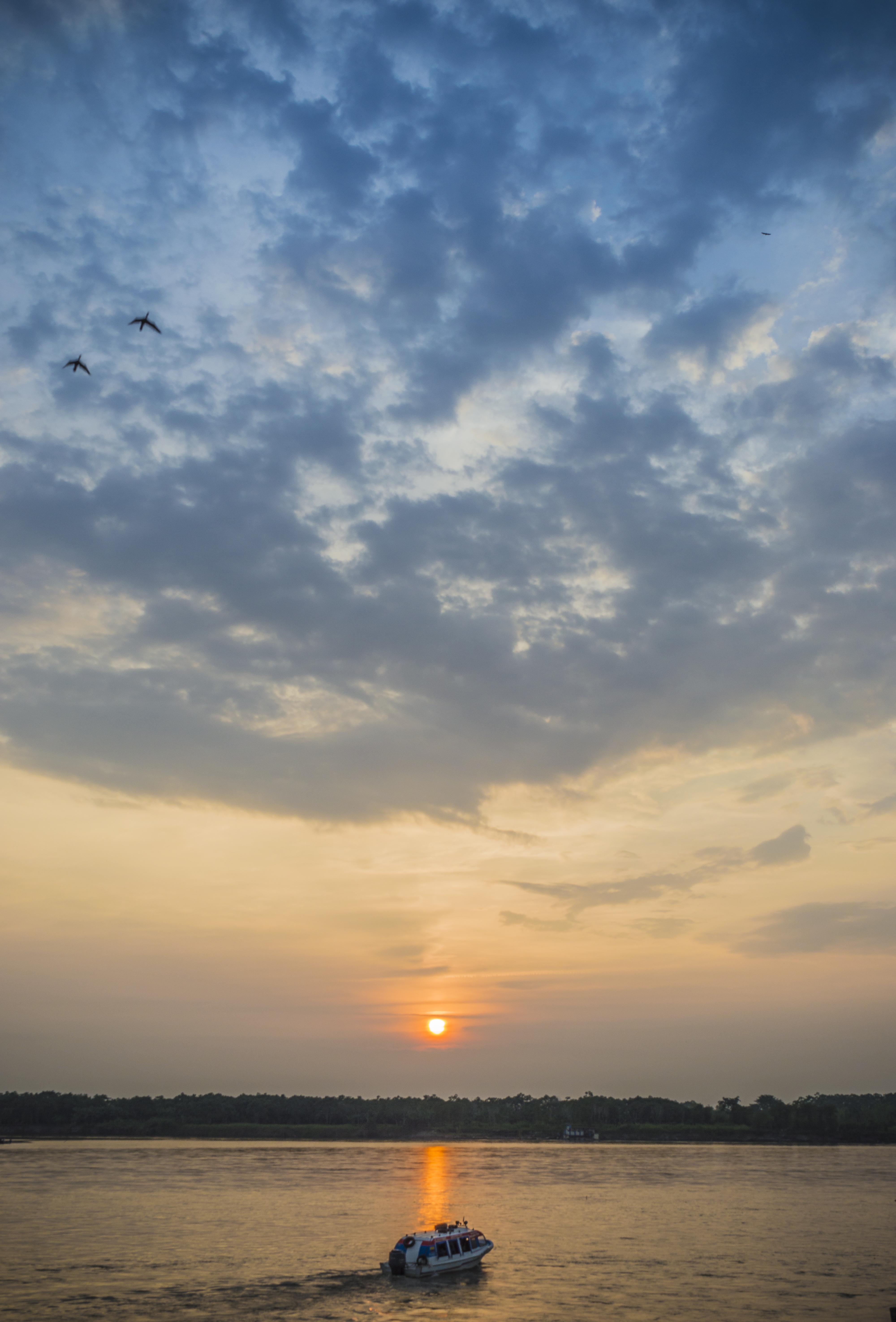 Fragmento del Muelle de Barrancabermeja, Santander. Se puede apreciar la majestuosidad del atardecer en estas tierras, acompañado del medio de transporte típico empleado para la comunicación de municipios cercanos ubicados a la orilla del imponente Río Magdalena. Esta fotografía fue tomada en el municipio colombiano con código 68081.